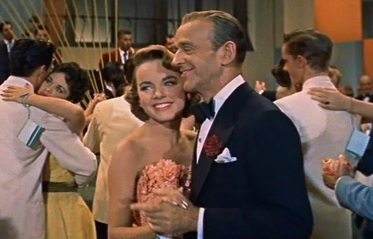 Terry Moore & Fred Astaire in Daddy Long Legs - trailer (cropped screenshot)